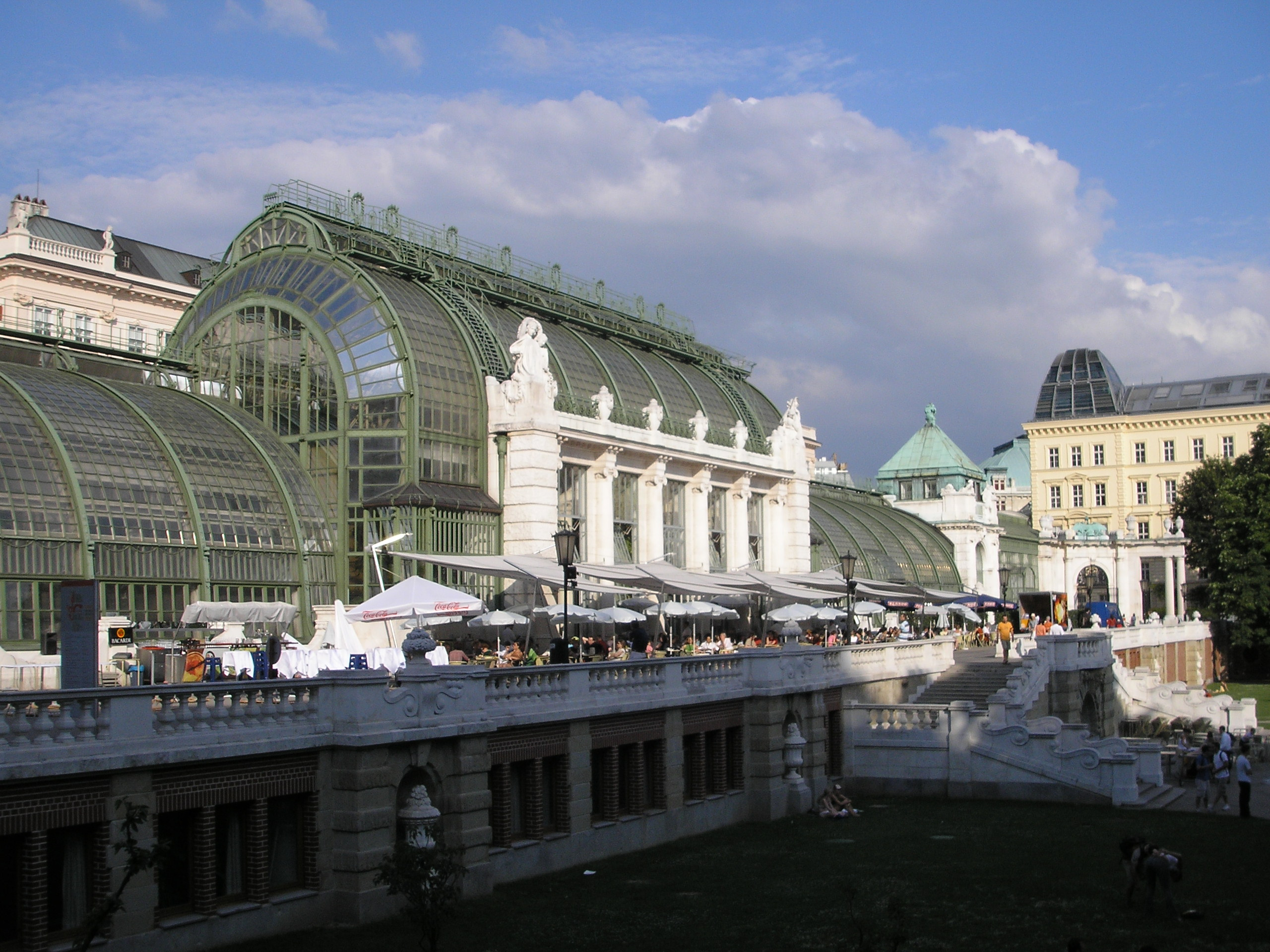 Image of the Palmenhaus (Palm House) in the Burggarten, Hofburg palace, Vienna.